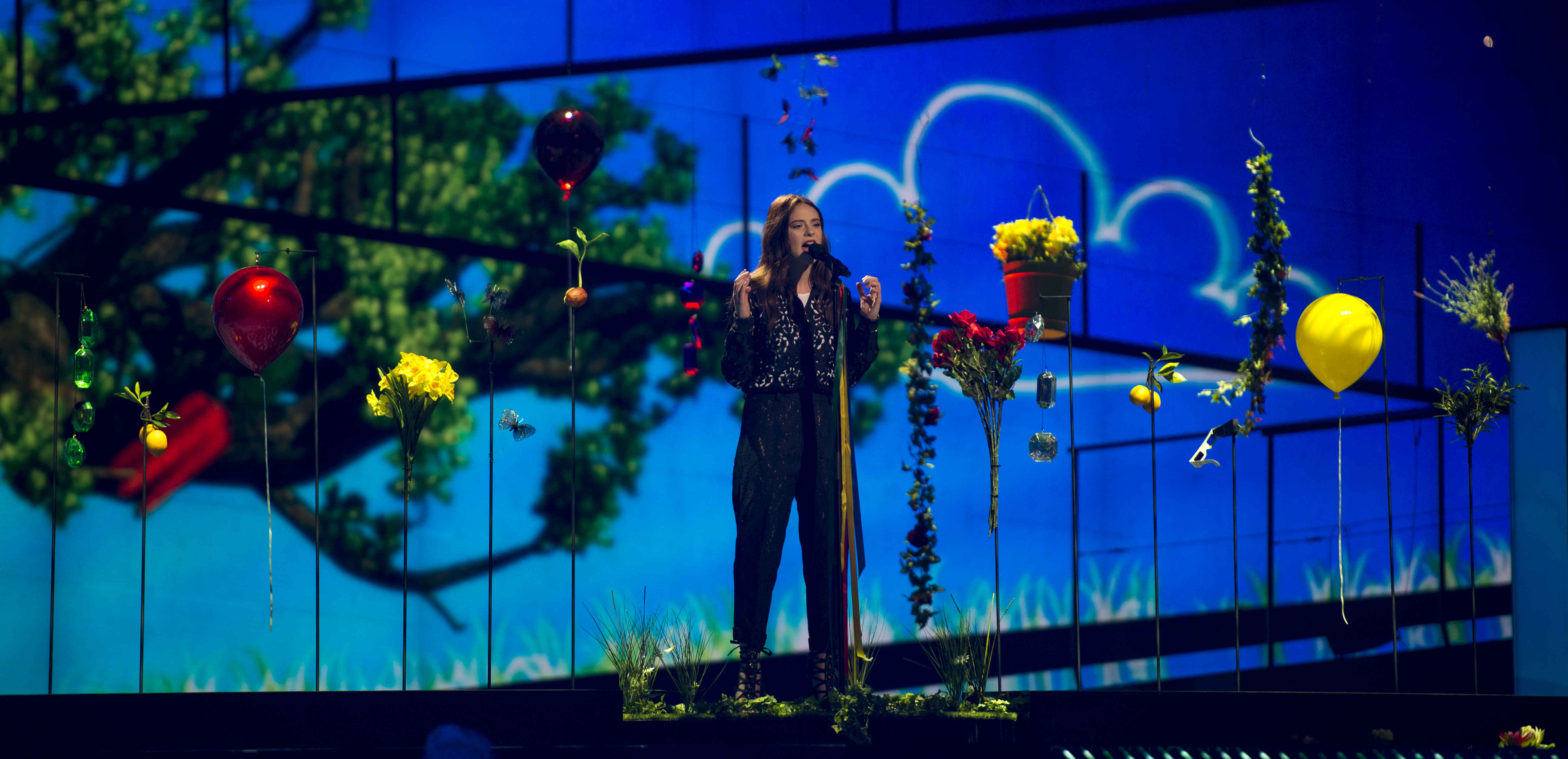 Francesca Michielin representing Italy with the song "No Degree Of Separation" during a rehearsal for "the Big Five" in the Eurovision Song Contest 2016 in Stockholm. (Help translate this text)